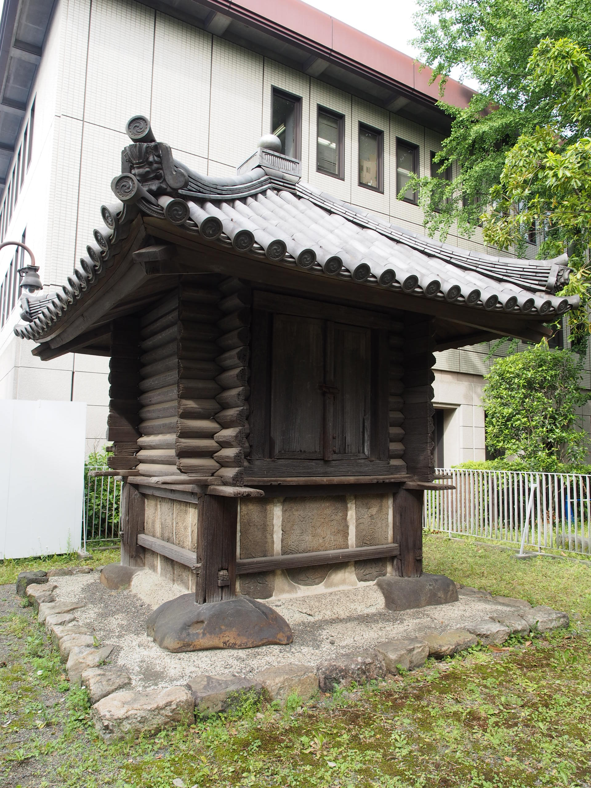 An Azekura repository for Buddhist sutras, formerly of the Jūrin-in Temple in Nara, Japan. Moved to the museum grounds in March 1882. See here for further info.